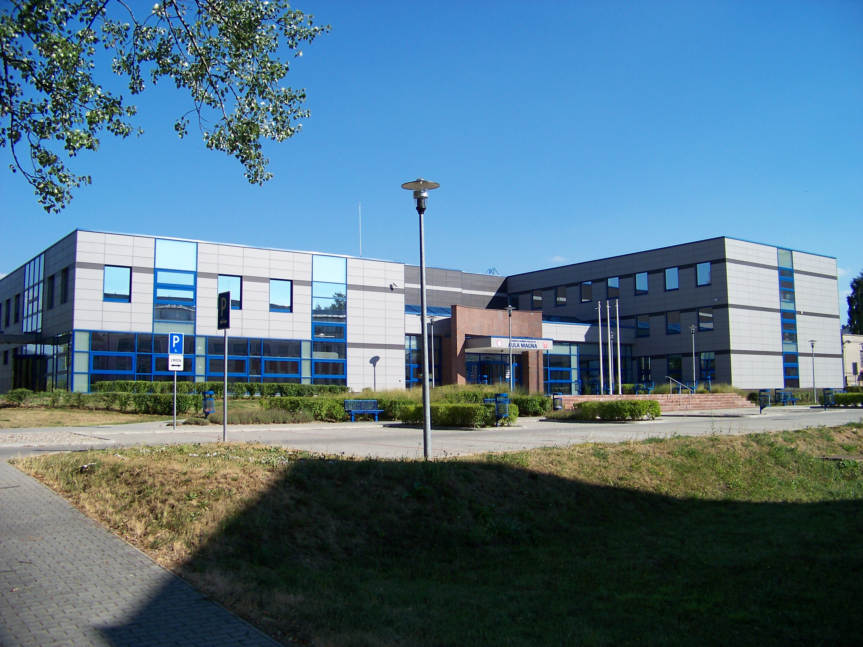 Jessenius Faculty of Medicine in Martin, Dean´s Office & Aula MagnaSlovenčina: Jessenius Faculty of Medicine in Martin, Dean´s Office & Aula Magna